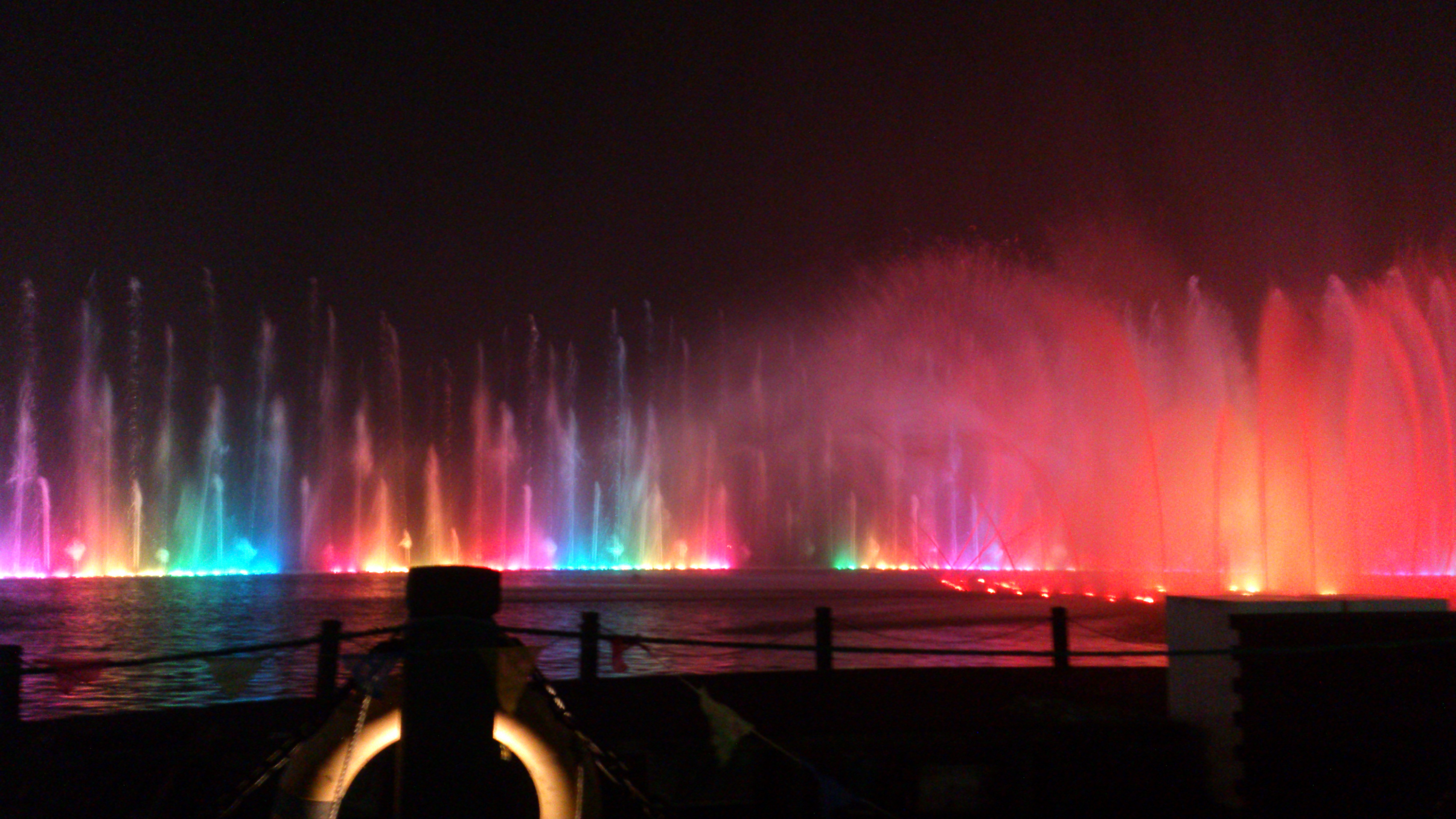 粵語: West Lake Fountain Show at night (until 2015)